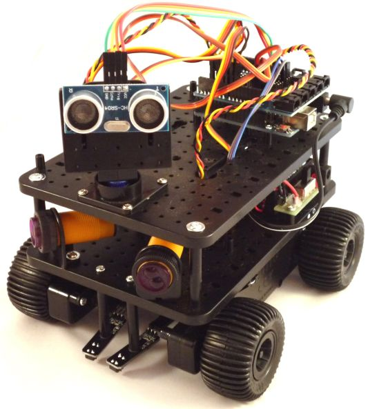 4tronix arduino robot